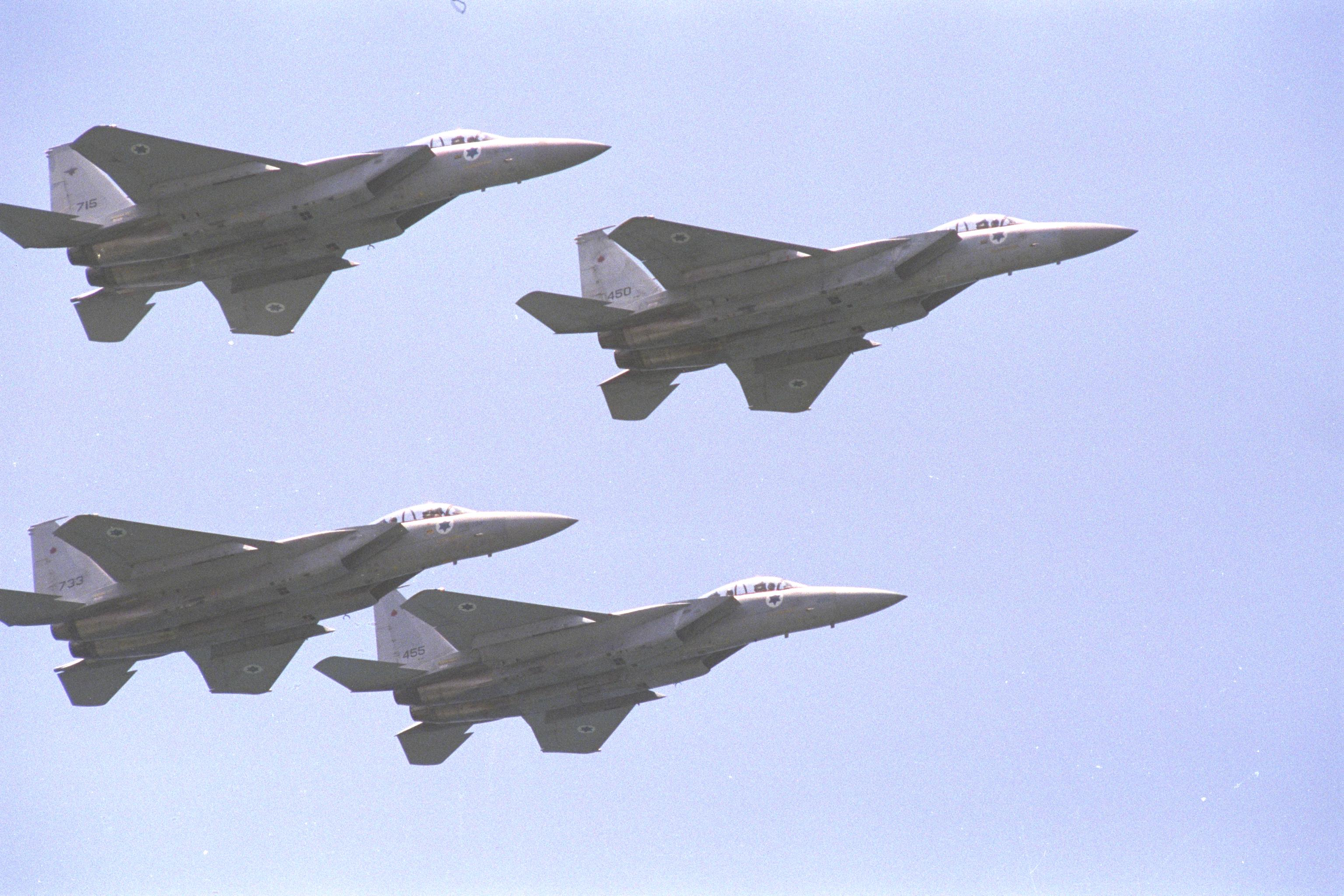 A formation of F-15 fighter planes flying above the Independence Day display in Tel Aviv. מבנה של 4 מטוסי אפ 15 במטס חיל האויר במפגן יום הצמאות שנערך מעל חופי העיר תל אביב. Photo: Moshe Milner (1946–) Alternative names Miylner, Moše; Milner, Mosheh; Moshé Milner; Milner, M.; Mîlner, Moše; Miylner, MošehDescriptionIsraeli photographerצלם ישראליDate of birth 1946 Location of birth Germany Authority control : Q28750411 VIAF: 100999744 ISNI: 0000 0001 0804 0507 LCCN: n82072104 GND: 115699732 BNF: 15548788n WorldCat creator QS:P170,Q28750411 , 05/04/1995